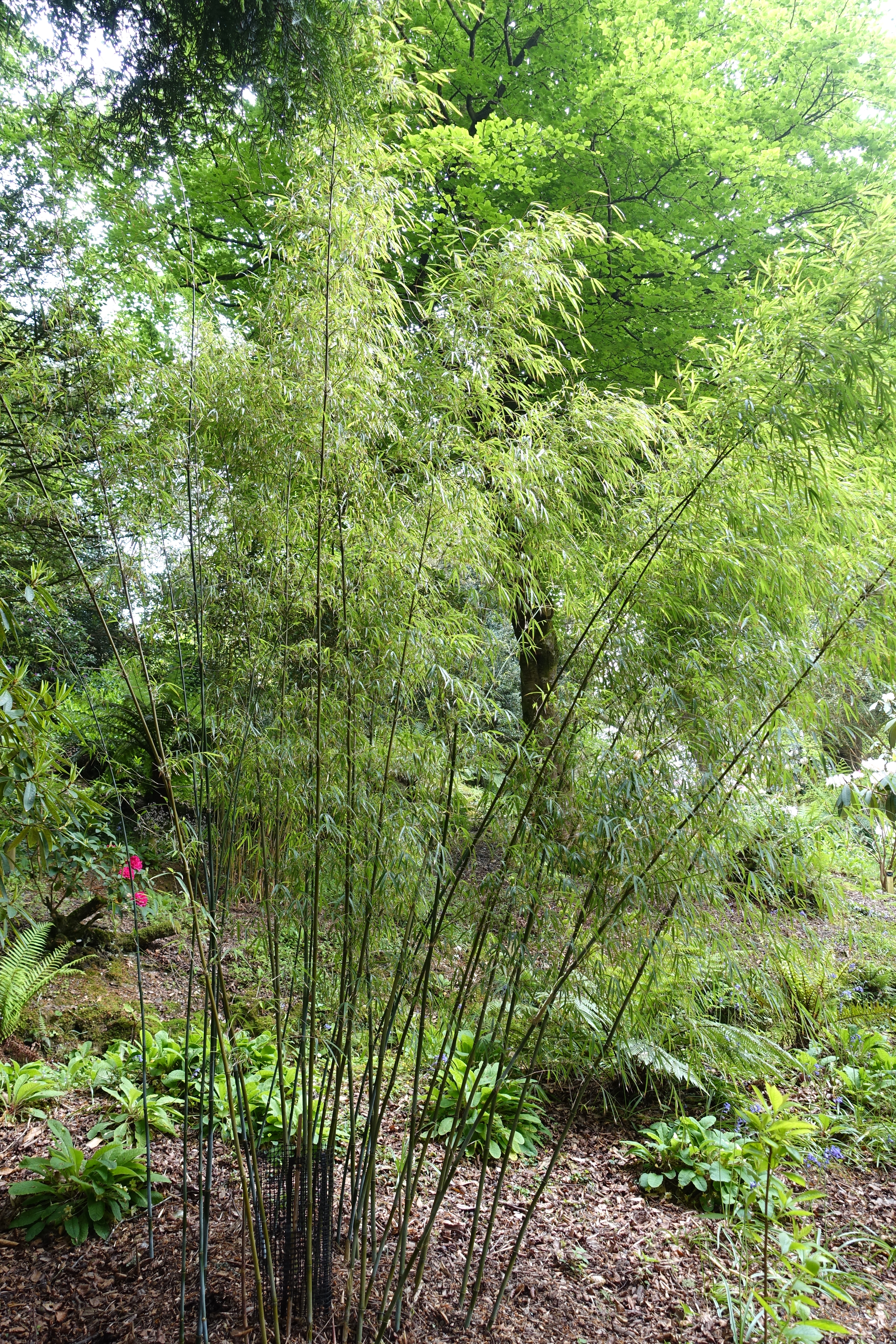 Horticultural specimen in Trebah Garden - Cornwall, England.